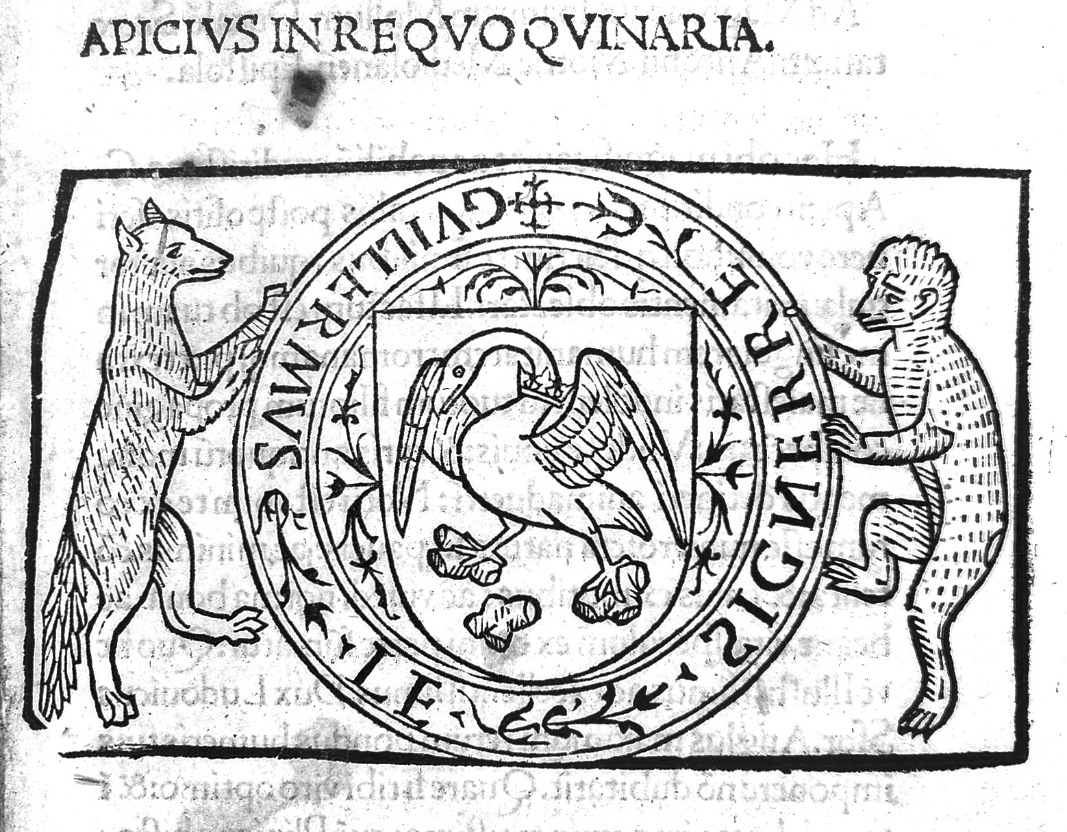 Title page Rare Books Keywords: Apicius